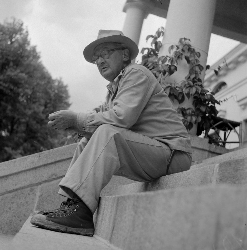 Photograph of the Finnish business executive Lauri Haarla (1897–1966) at Laukko mansion.